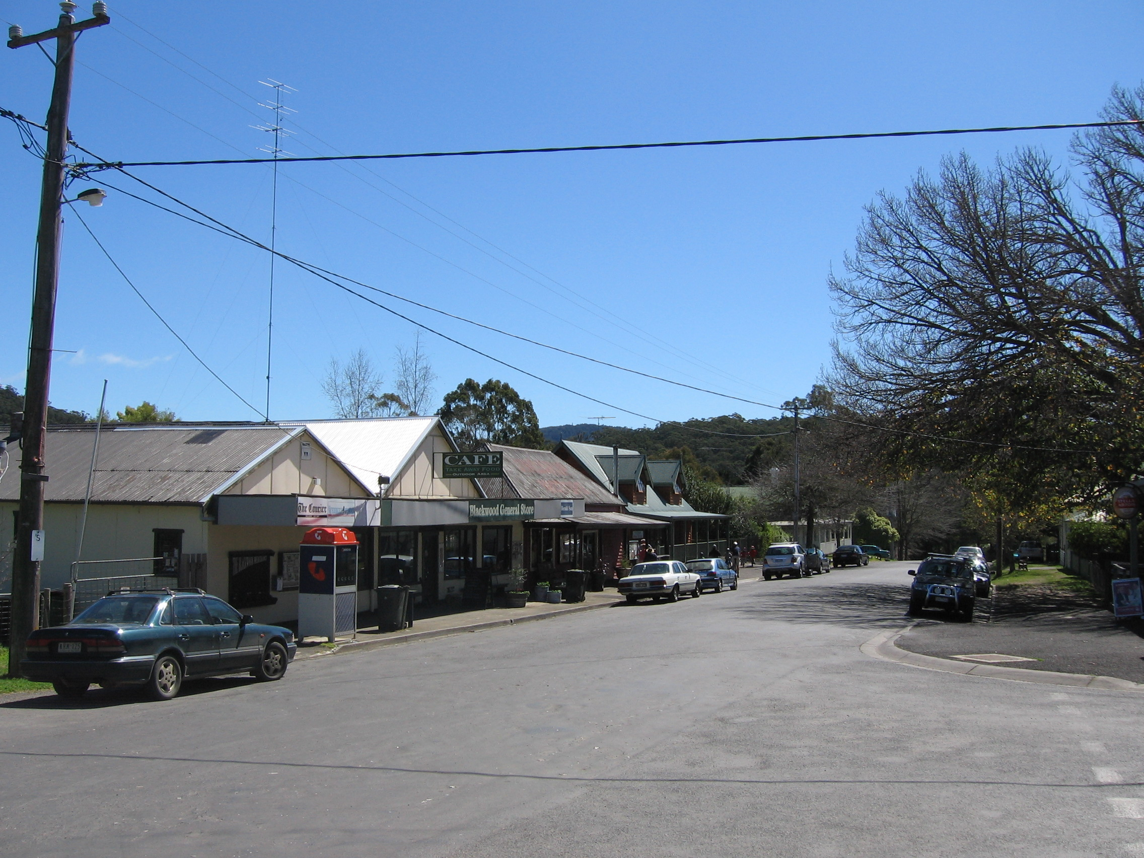 Main street of Blackwood, Victoria